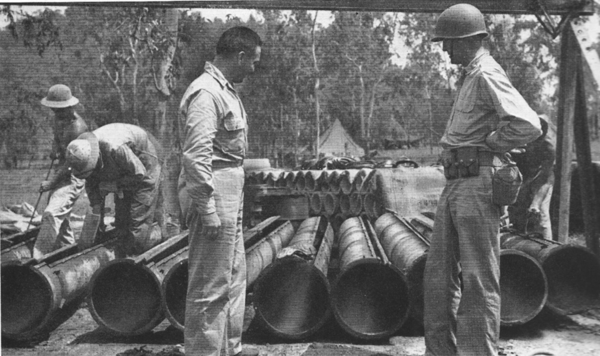 US Army engineers manufacture concrete culvert pipes to alleviate the pipe shortage. They are inspected by Lieutenant CXolel A. D. Chaffin (left) and Brigadier General Dwight Johns (right)